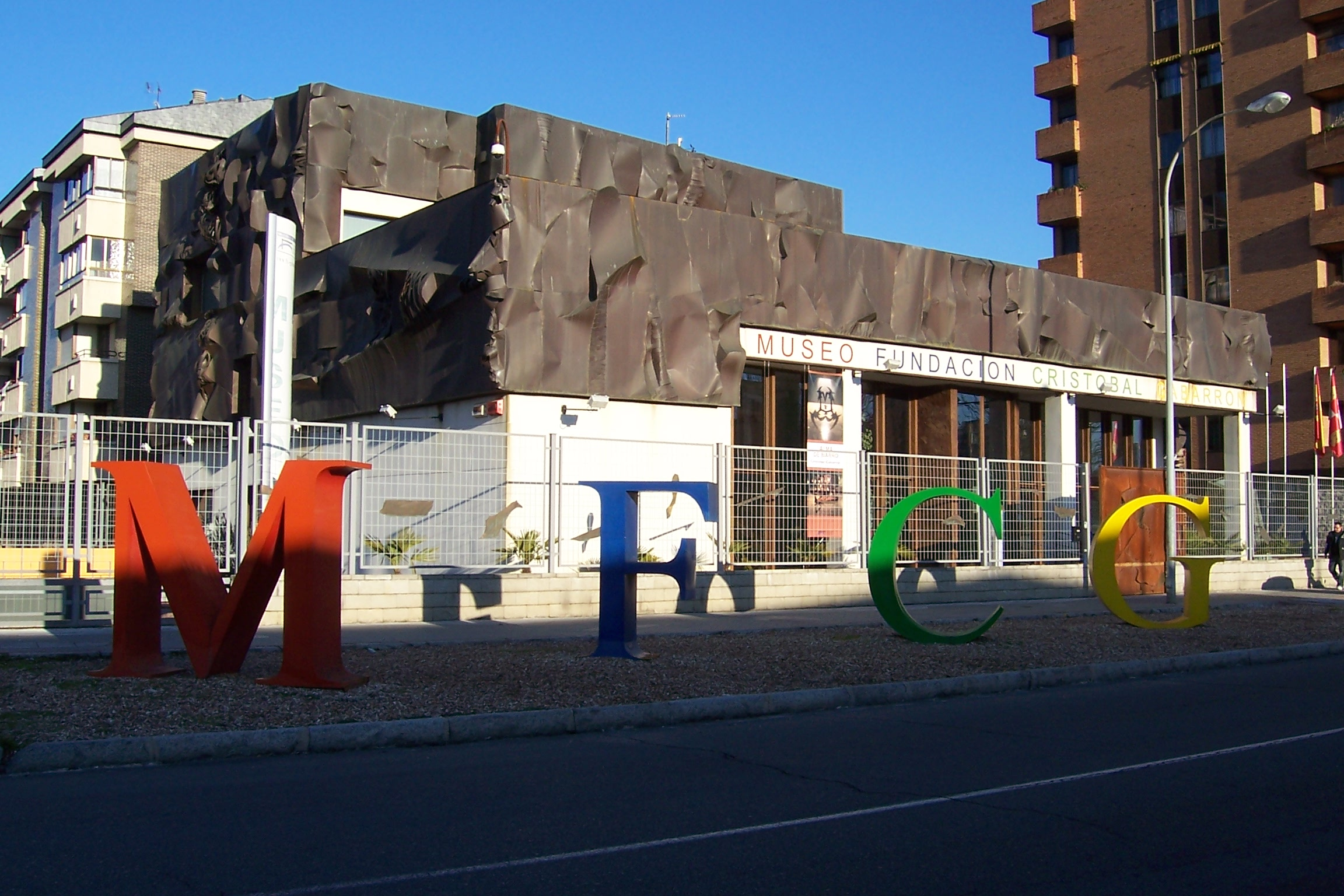 Museum of the Foundation Cristóbal Gabarrón in Valladolid (Spain)